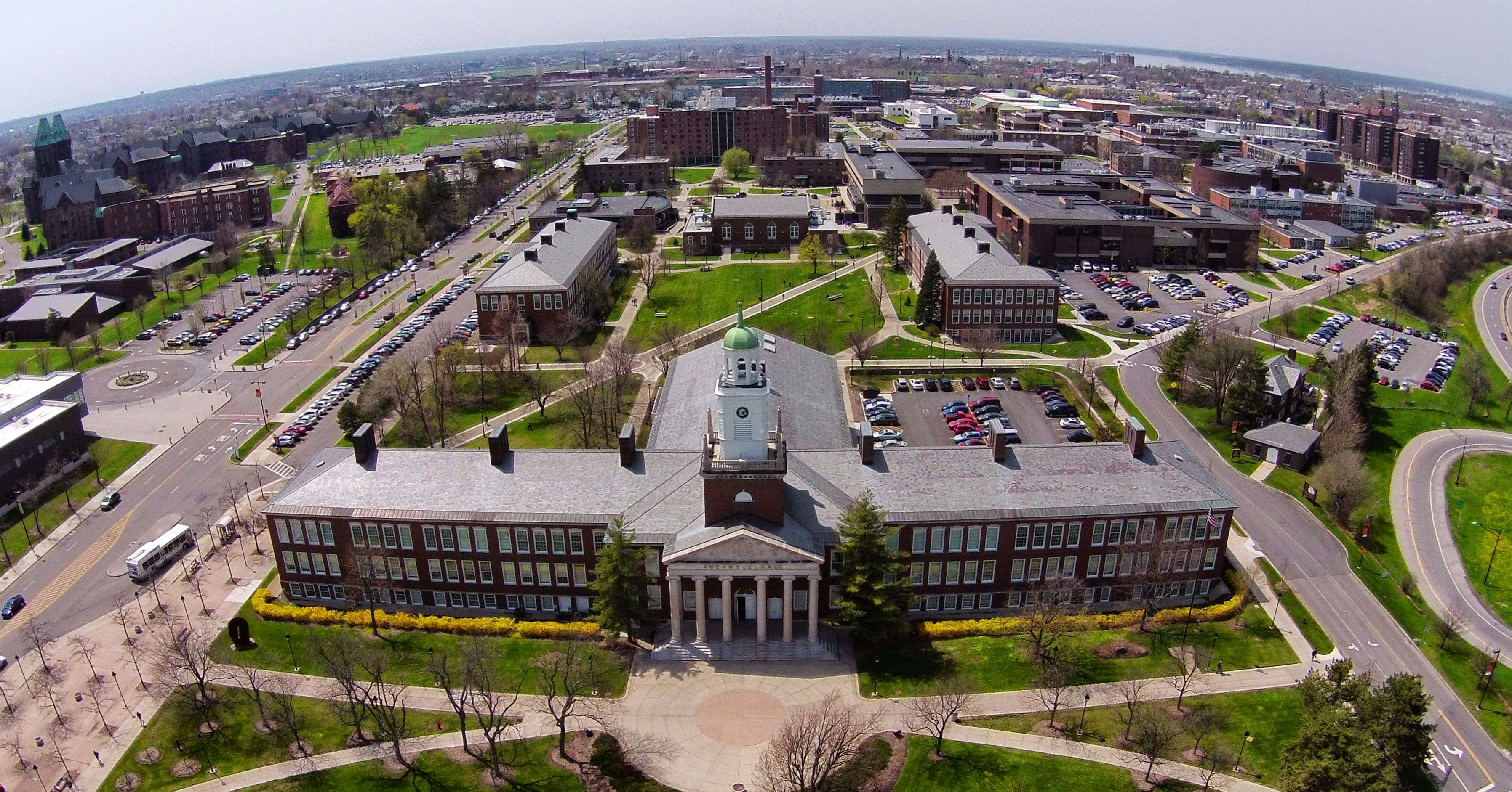 Rockwell Hall, SUNY at Buffalo State